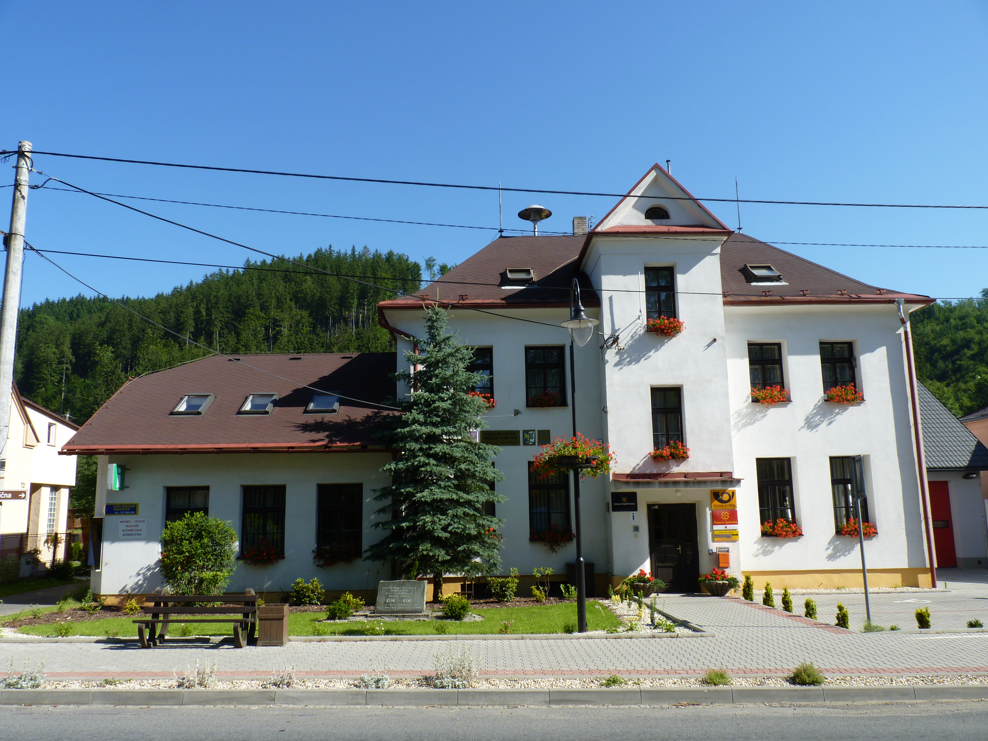 Dolní Lomná - post office, Frýdek-Místek District, Moravian-Silesian Region, Czech Republic